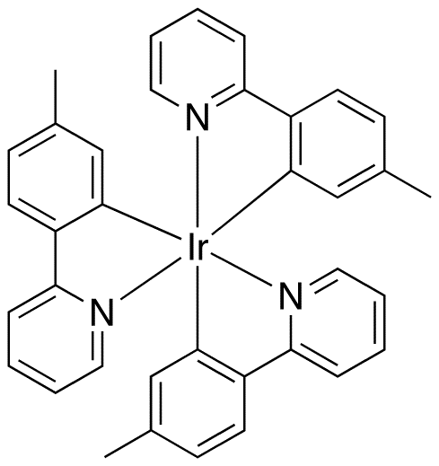 Ir(mppy)3. see also [1]